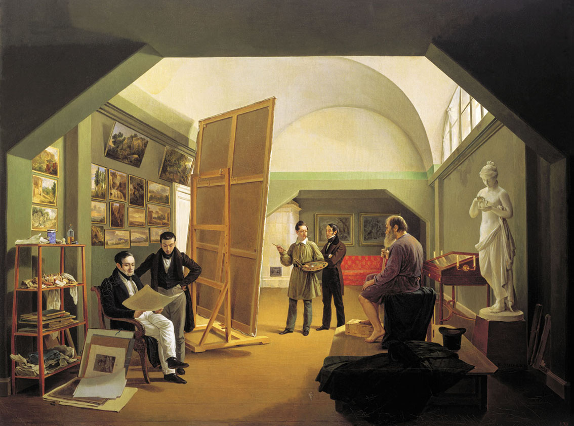 Kapiton Zelentsov (1790-1845). Painter Pyort Vasilyevich Basin's studio